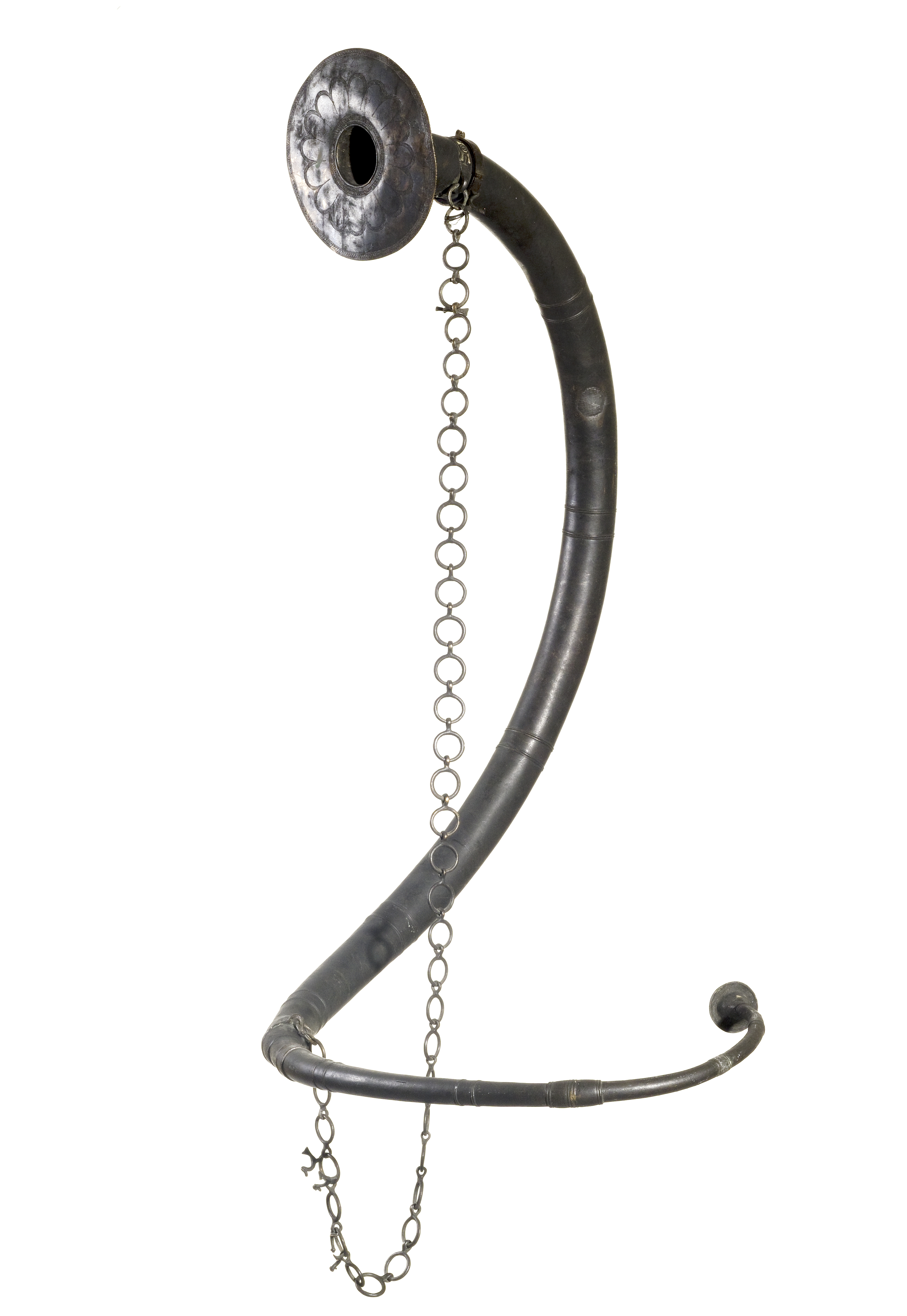 Lur from Folvisdam, Grædstrup sogn, Denmark (22302)